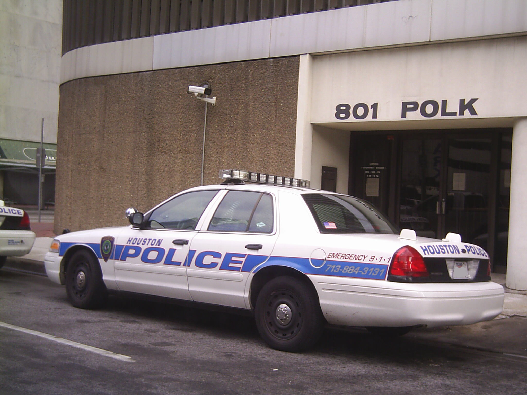 Police in Houston